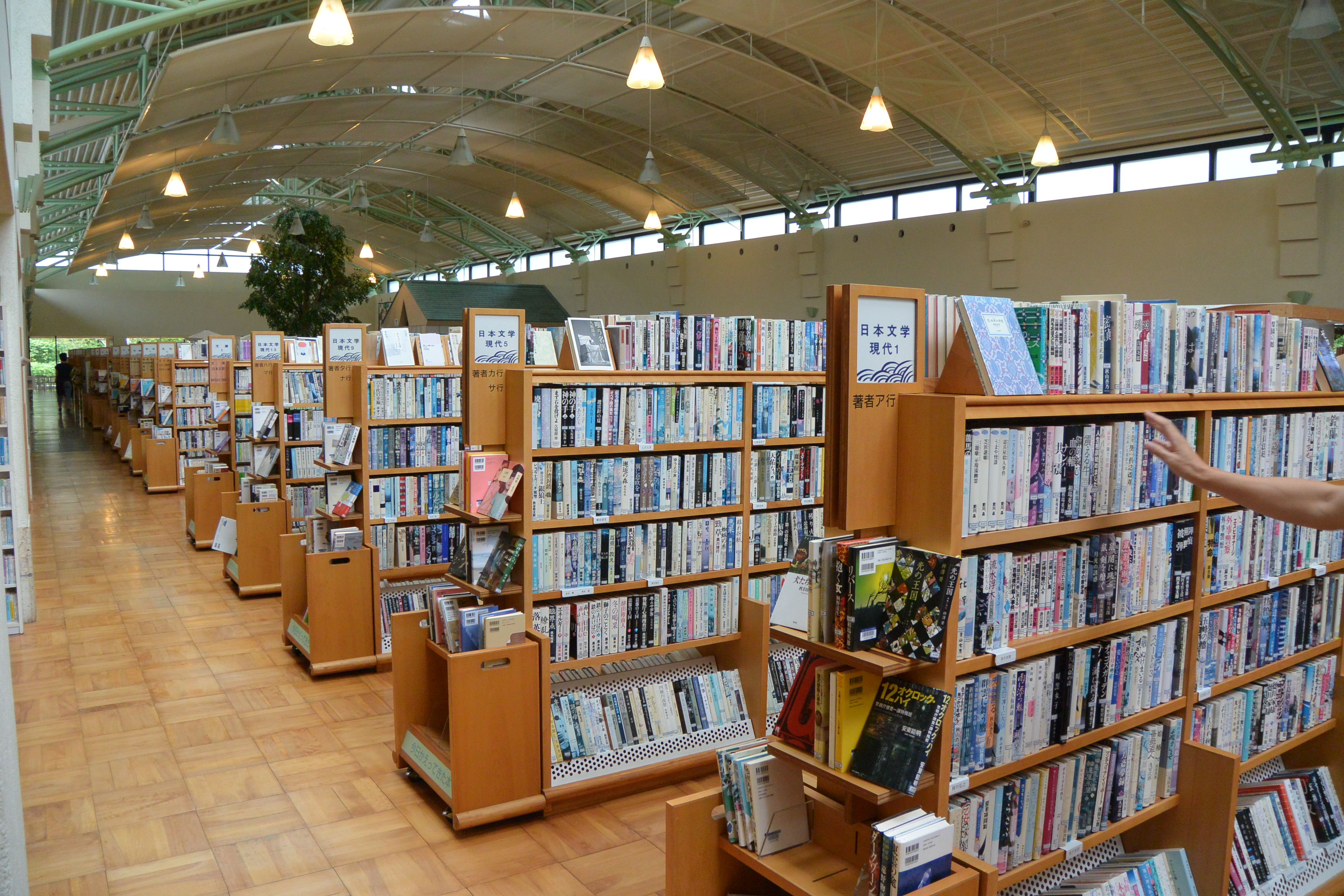 Inside view of Imari Public Library. The hight of bookshelf are 1450mm for wheelchair users.